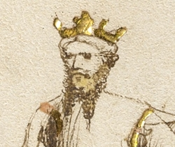 Detail image from folio 34r of the J. Paul Getty Museum Ms. Ludwig XV 13.